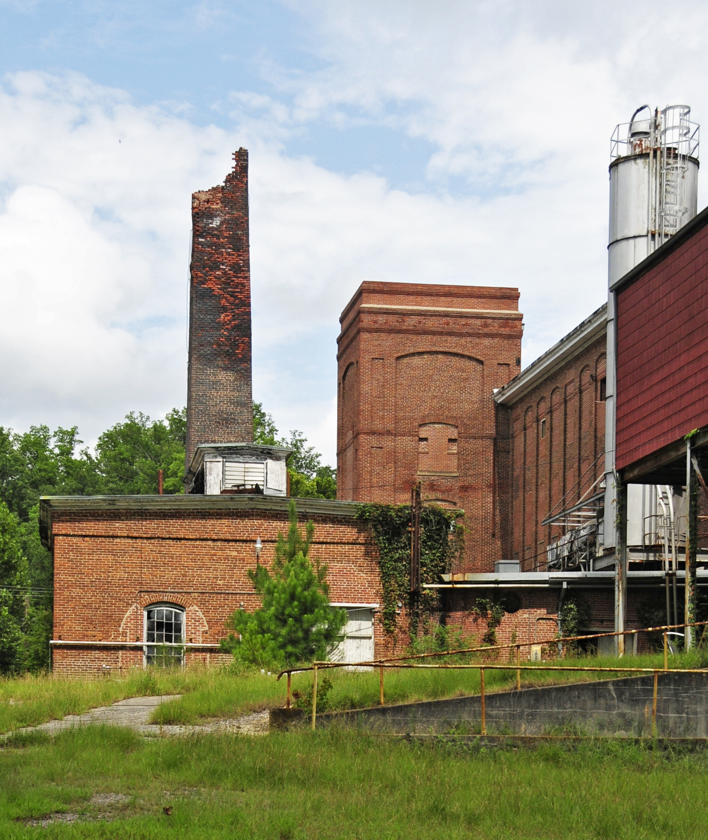 Vancluse Mill, Aiken County, South Carolina